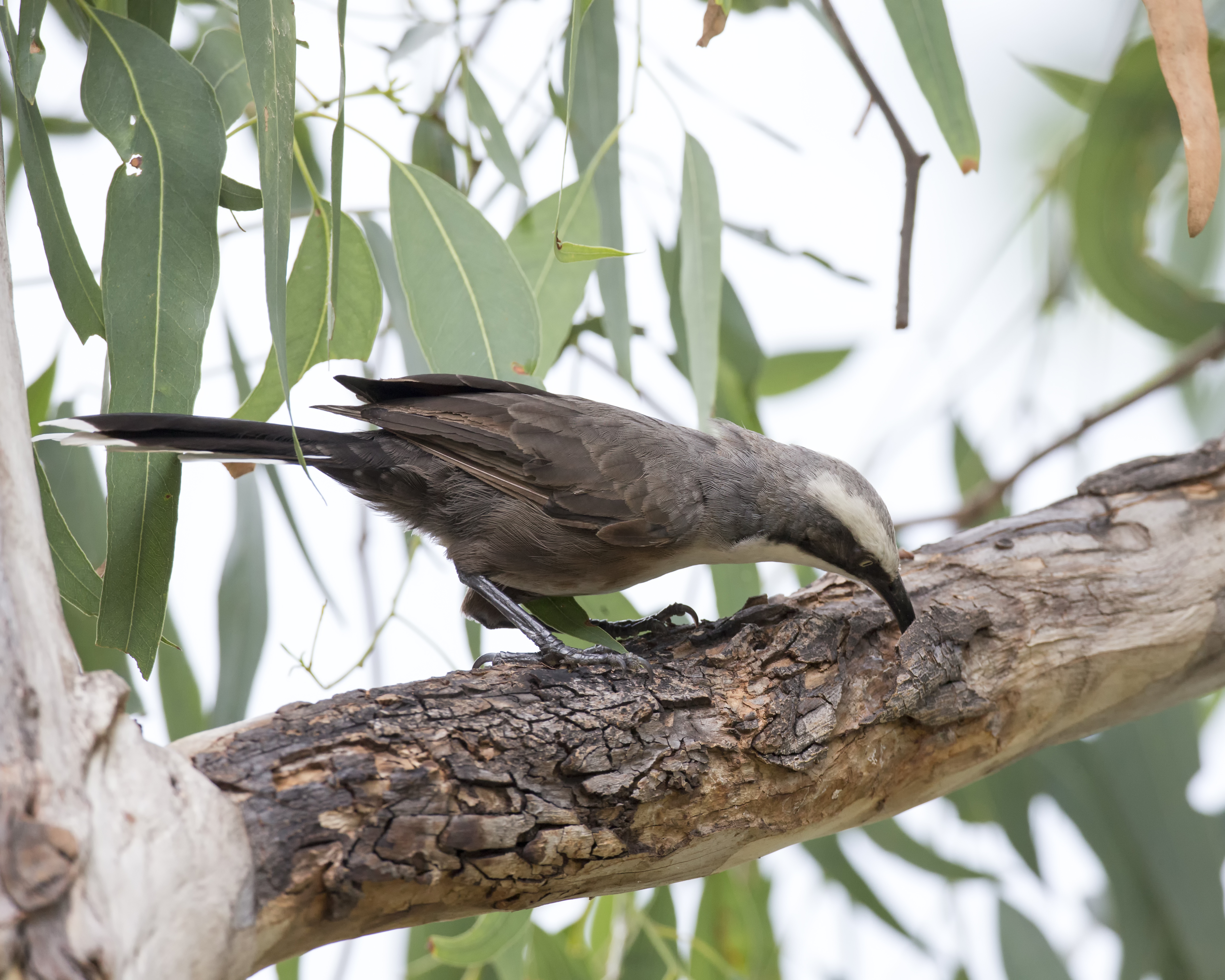 Must be full of yippee beans those insects, these guys go hard. Totally mad and a lot of fun